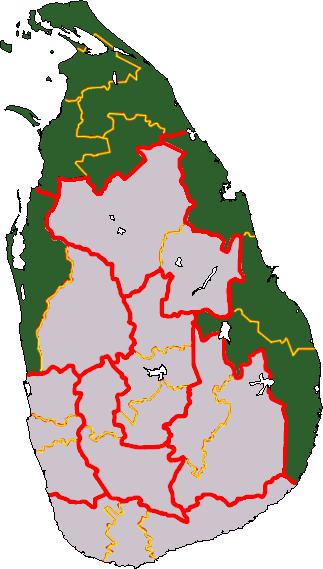 Tamil Eelam's claims in Sri Lanka: derivative work of QuartierLatin1968's map File:Location Tamil Eelam territorial claim.png, with all the administrative limits.